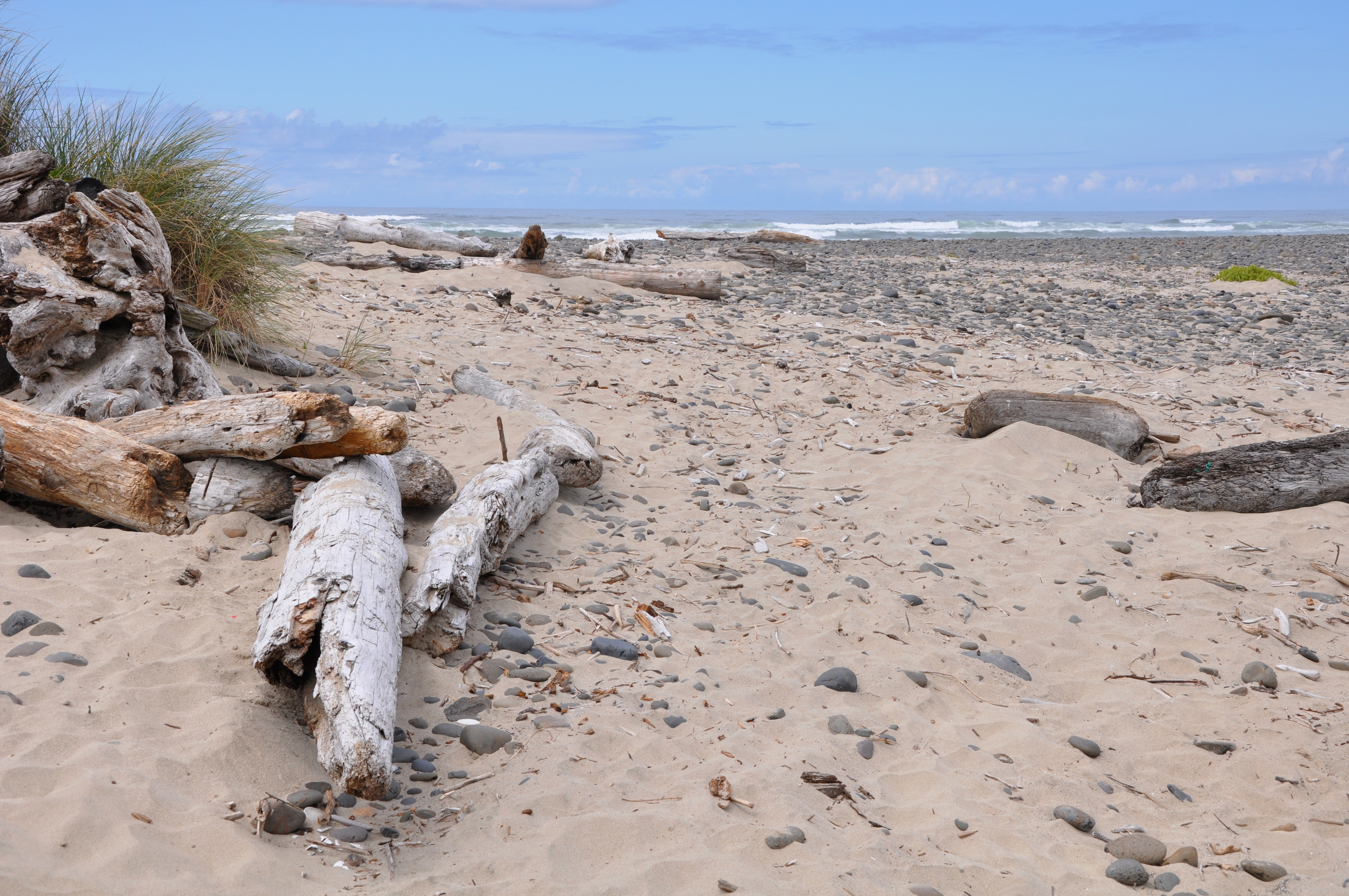 Stonefield Beach State Recreation Site south of Yachats in the U.S. state of Oregon. Looking toward the Pacific Ocean.